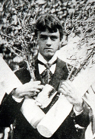 Olympic Games, Athens, Greece, Mens 100 and 400 Metres, Thomas Burke of Boston, USA, winner of two gold medals